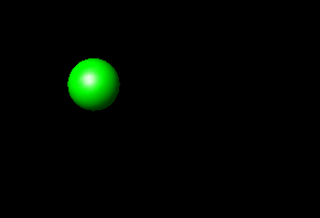 First frame of a video sequence